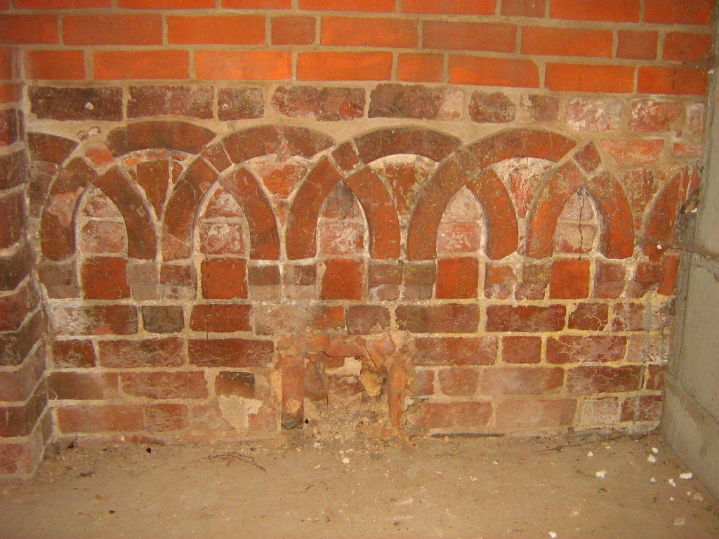 Brick blind arches, detail in the nave of the conventuel church in Dargun, Mecklenburg, Nordvorpommern, Germany.